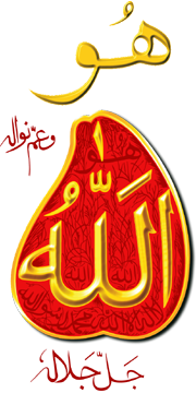 OTRS # is Ticket#2013062010002201